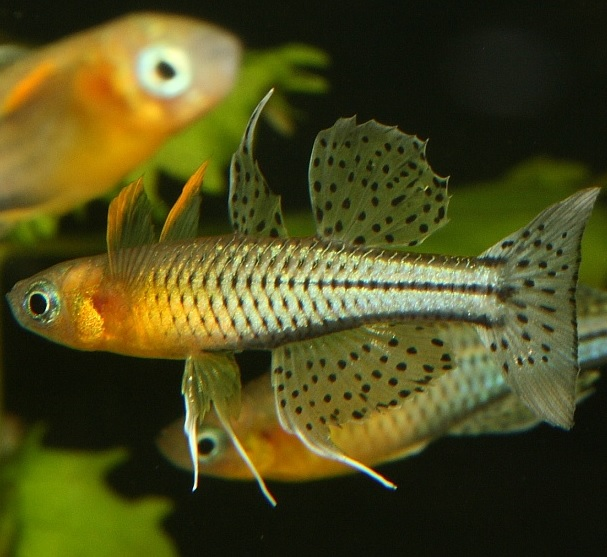 Spotted Blue Eye (Pseudomugil gertrudae Crop for DYK)